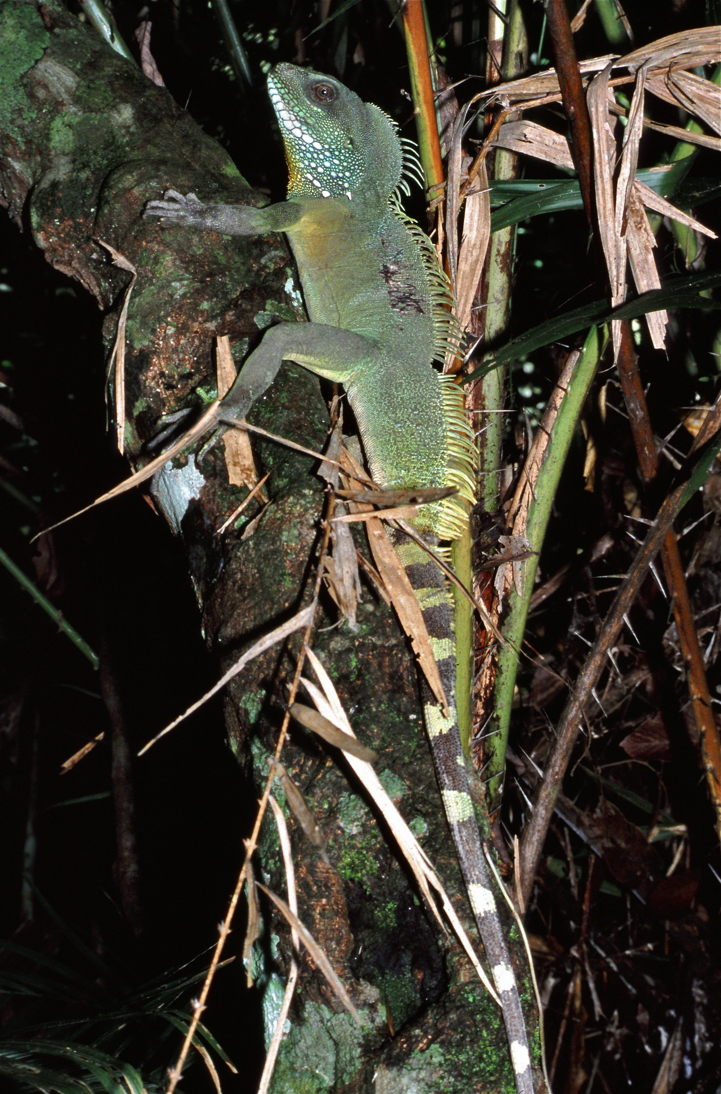 Khao Yai NP, THAILAND Scanned Slide from 2003